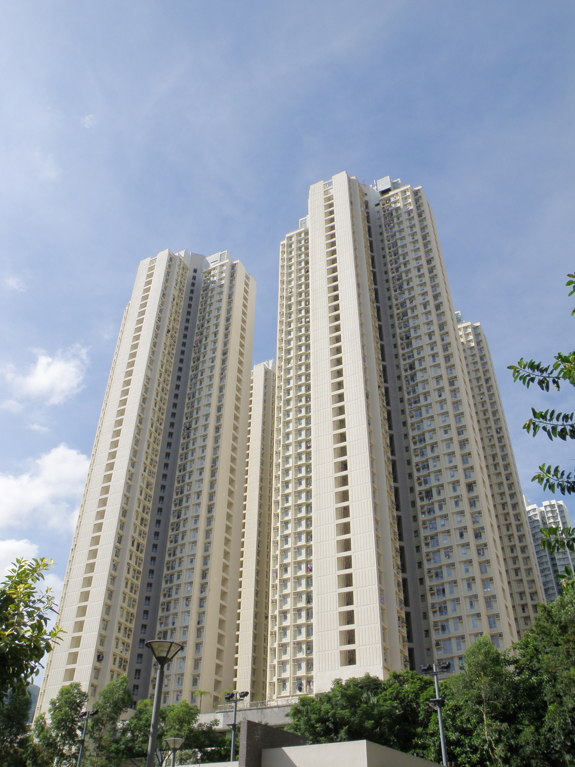 Ning Fung Court in Shek Yam, Hong Kong.